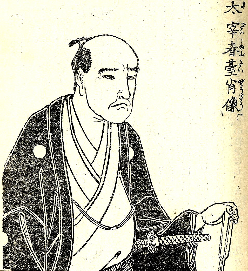 Dazai Syundai (太宰 春台) was a Japanese Confucian philosopher of Edo Period.